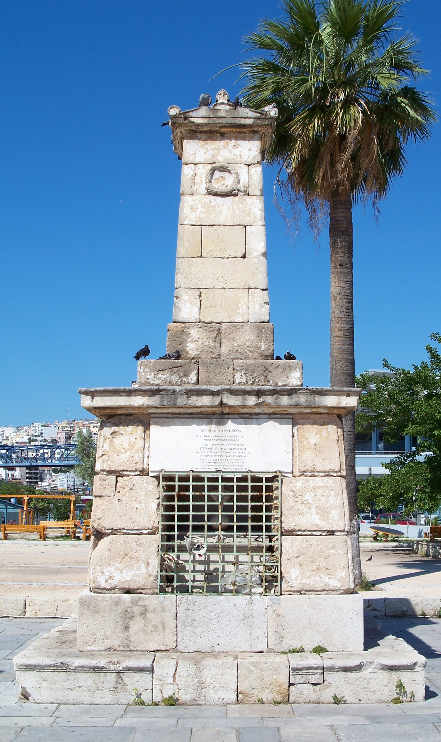 Monument erected at the time of Otto (first king of Greece) at the place where Georgios Karaiskakis, a prominent Greek revolution figure, was killed at Faliro.